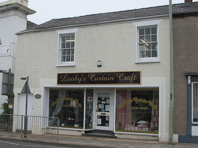 Birthplace of Composer, Herbert Howells Born in this house in October 1892, Howells is best known for his choral music. A small grey plaque displays this information and can just be seen to the right of the triangular road sign.